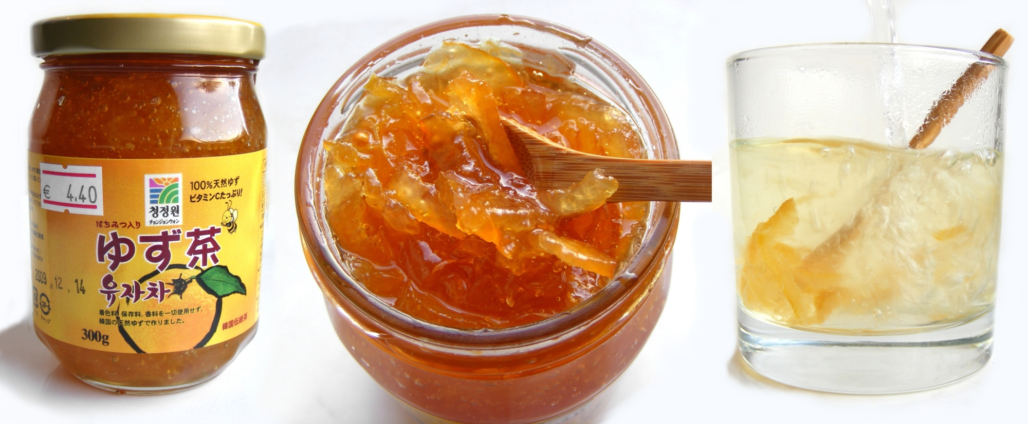 A jar of yucheong to make Korean yujacha (yuzu tea). The substance reminds of marmalade. Mix a big tablespoon in a cup of boiling water. Great for cold winter afternoons.